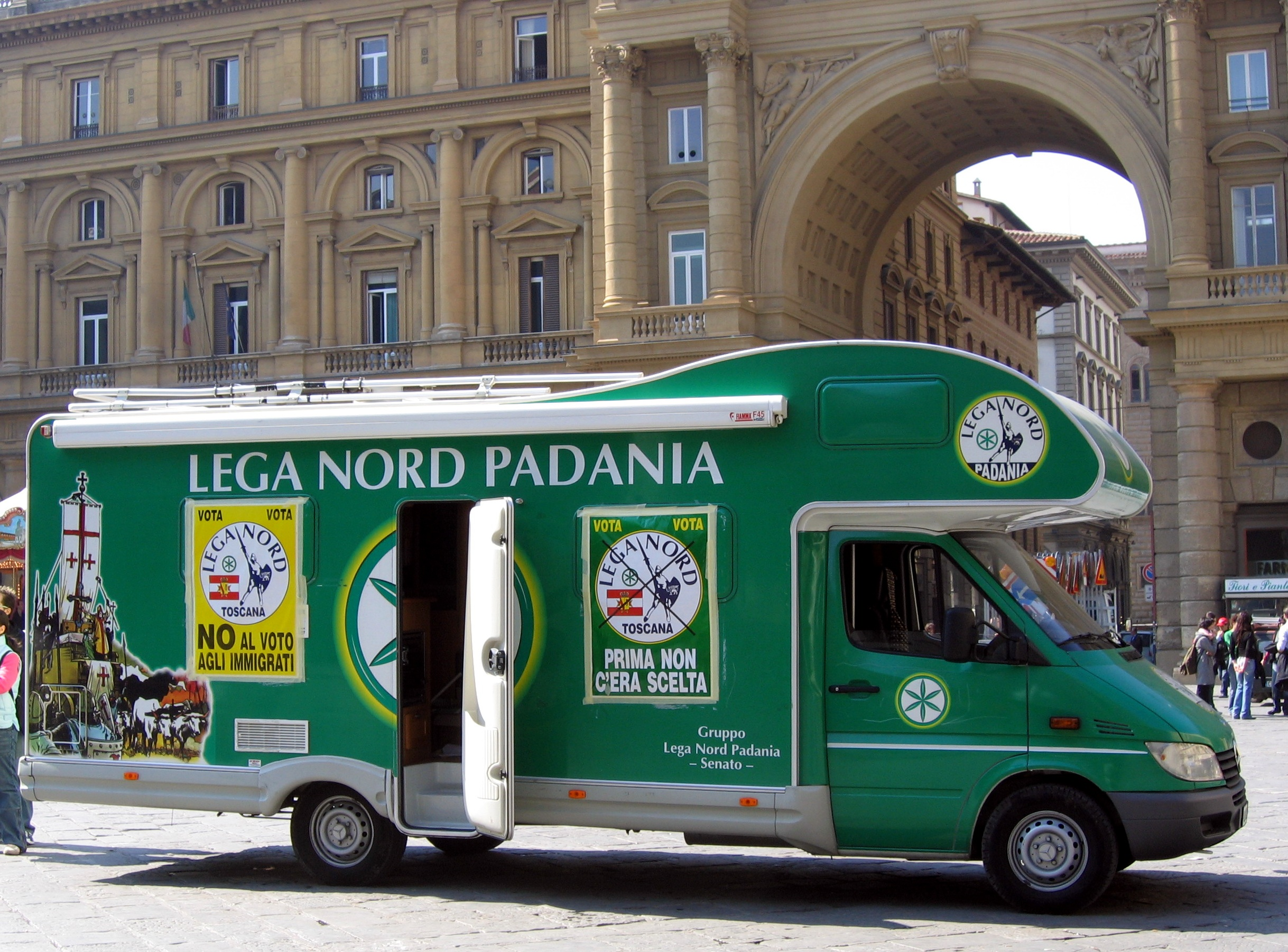 Time, Place: march 2005, Florence, Piazza della Republica Camera: Canon Powershot A95 Description: Publicity Car of the Italian Lega-Nord Party for the regional Elections in the Tuscany on 3. April 2005 License: Picture by myself